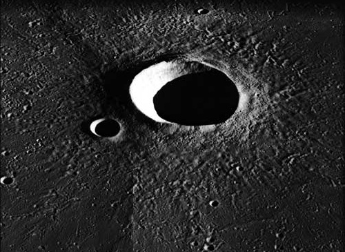 Oblique view of Diophantus, on the moon. Approximate north at top.